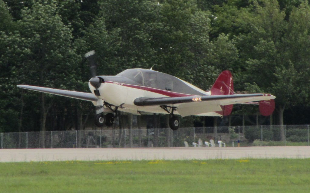 Bellanca 14-19-3 Landing